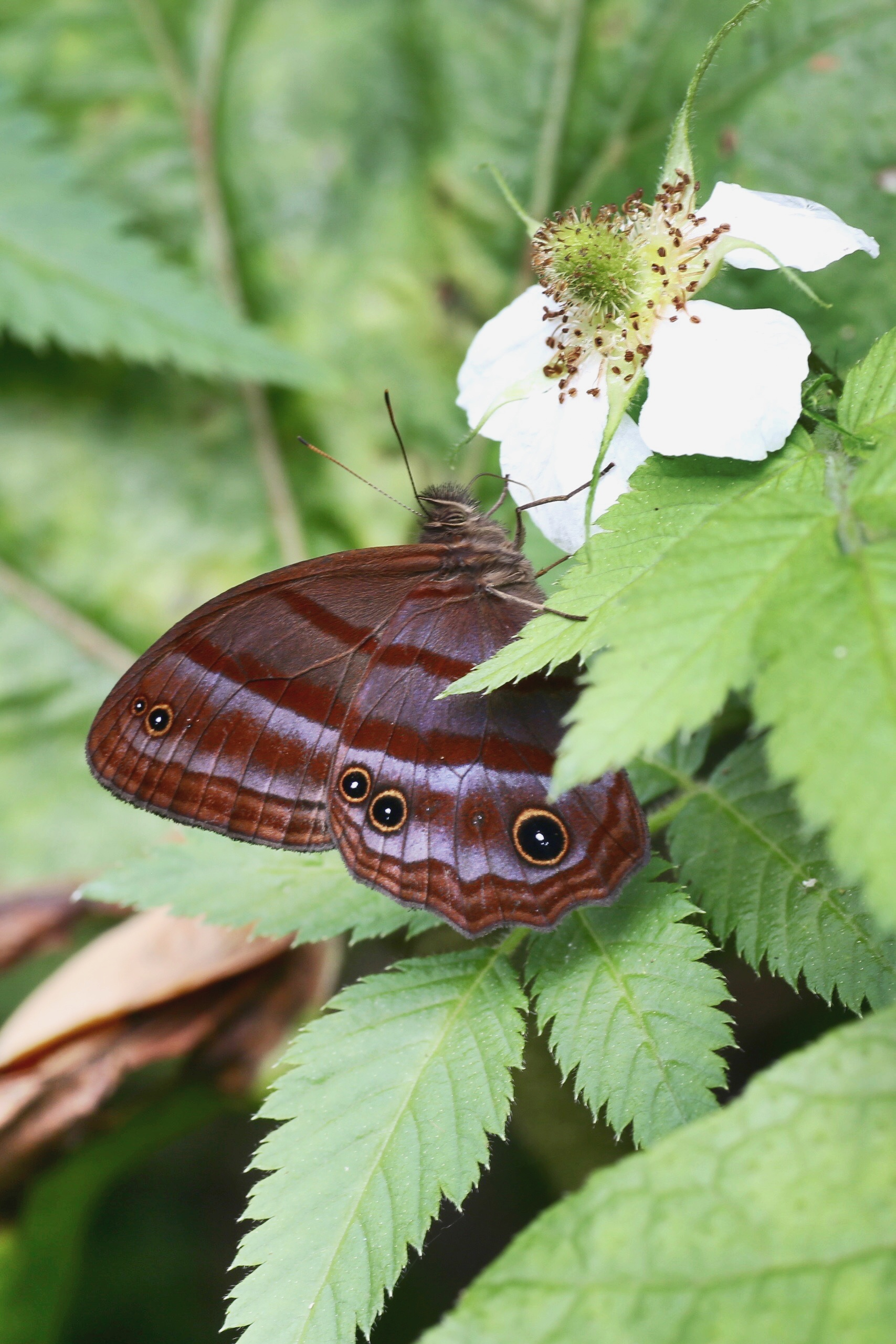 Ecuador, Mindo, Yellow House trail. The species inhabits the understorey, and is usually only seen along the darker and narrower trails.